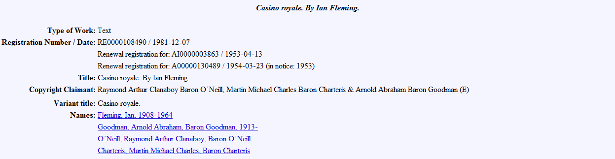 Screen shot of the details for the renewal registration of Casino Royale in the copyright records from the United States Copyright Office website. Registration number: RE0000108490.